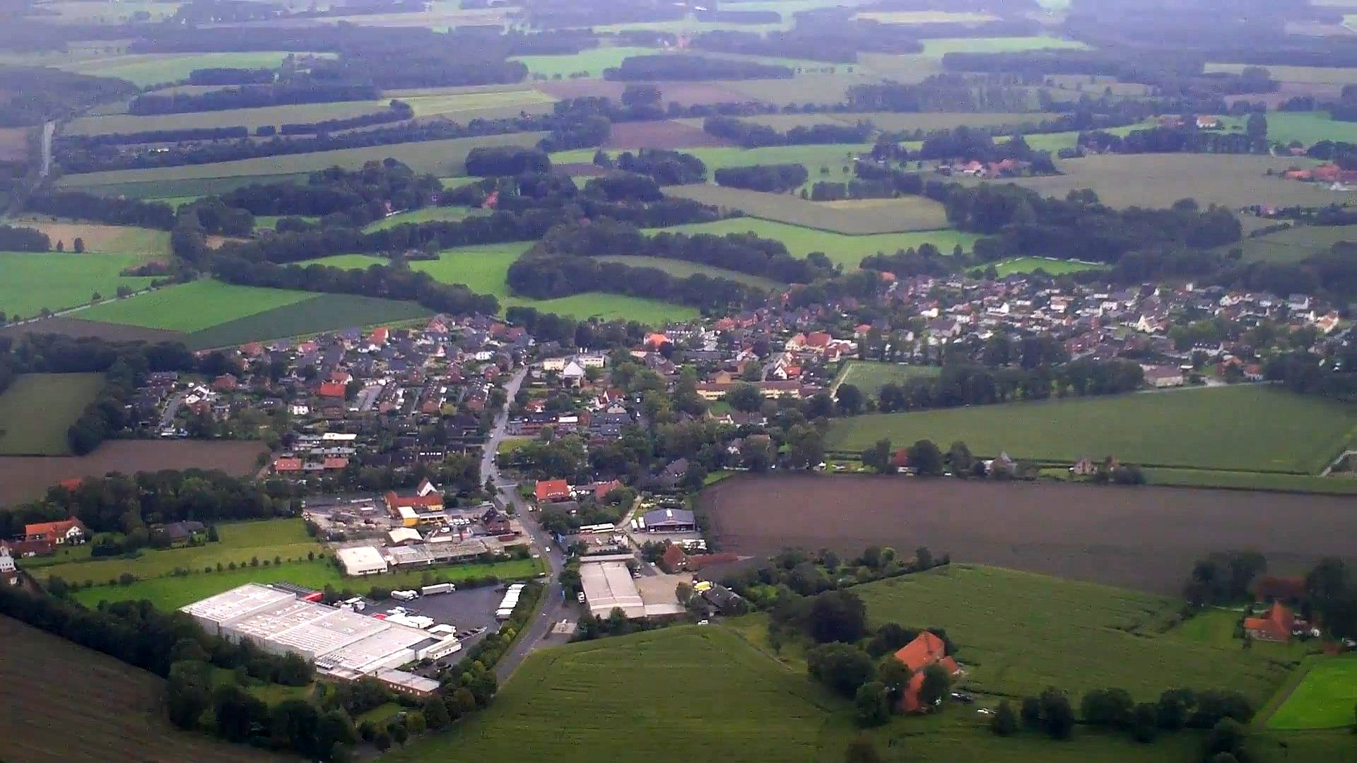 Aerial view of Peckeloh in September 2011